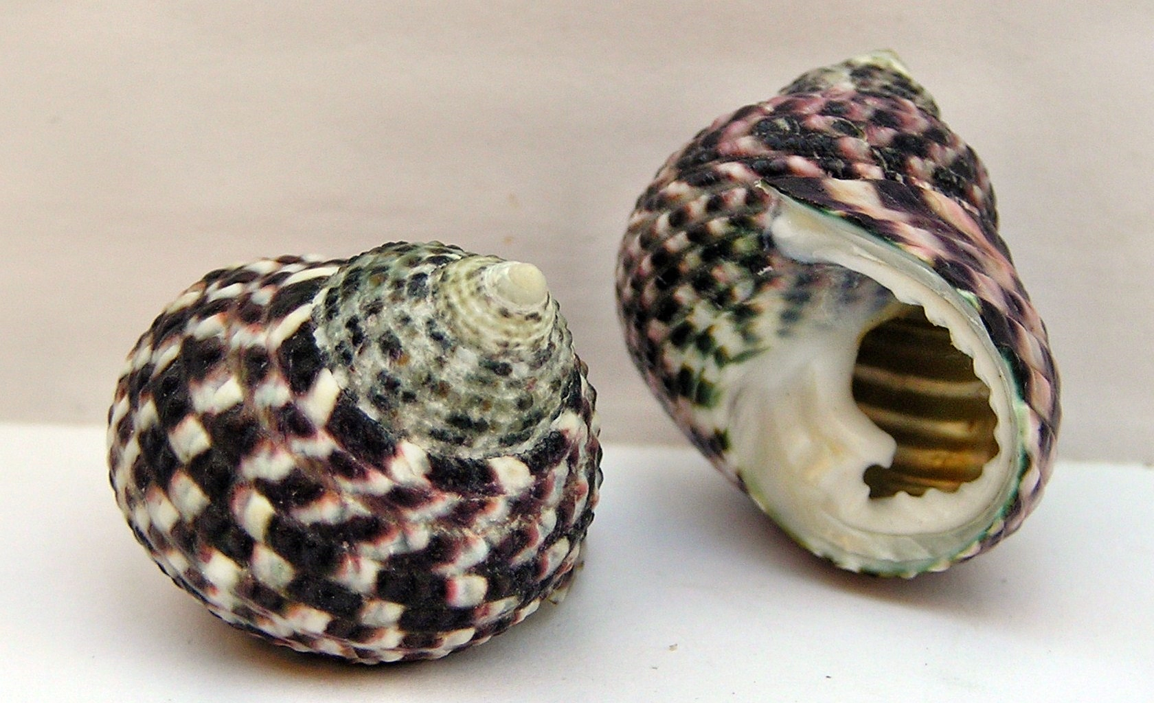 Monodonta labio (Linnaeus, 1758) , a top snail in the family Trochidae